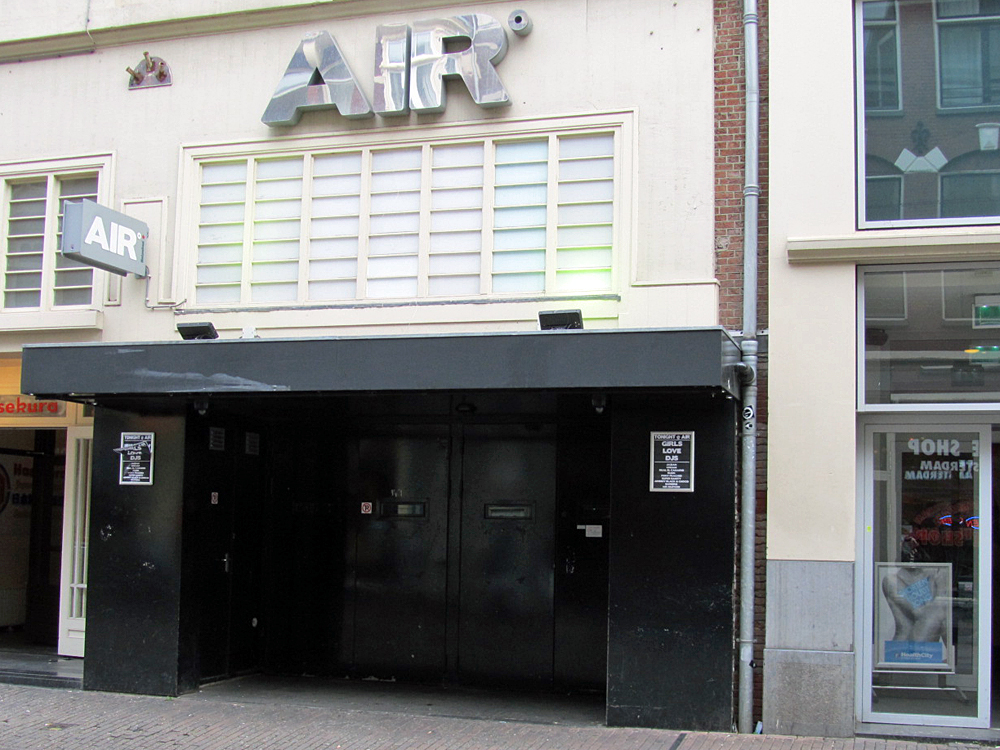 Entrance of Club AIR in Amstelstraat in Amsterdam, the only part left of the former famous disco iT